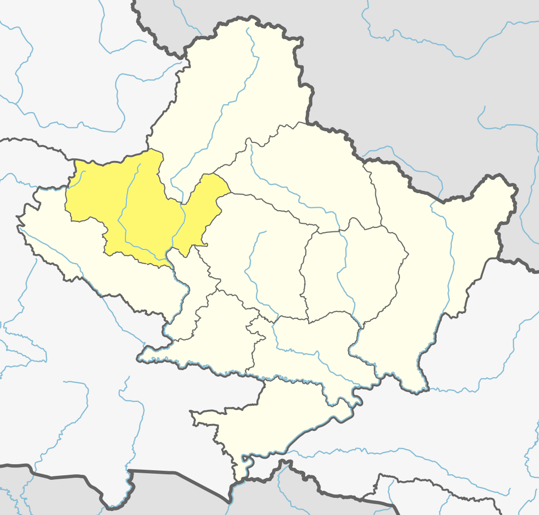 Myagdi District